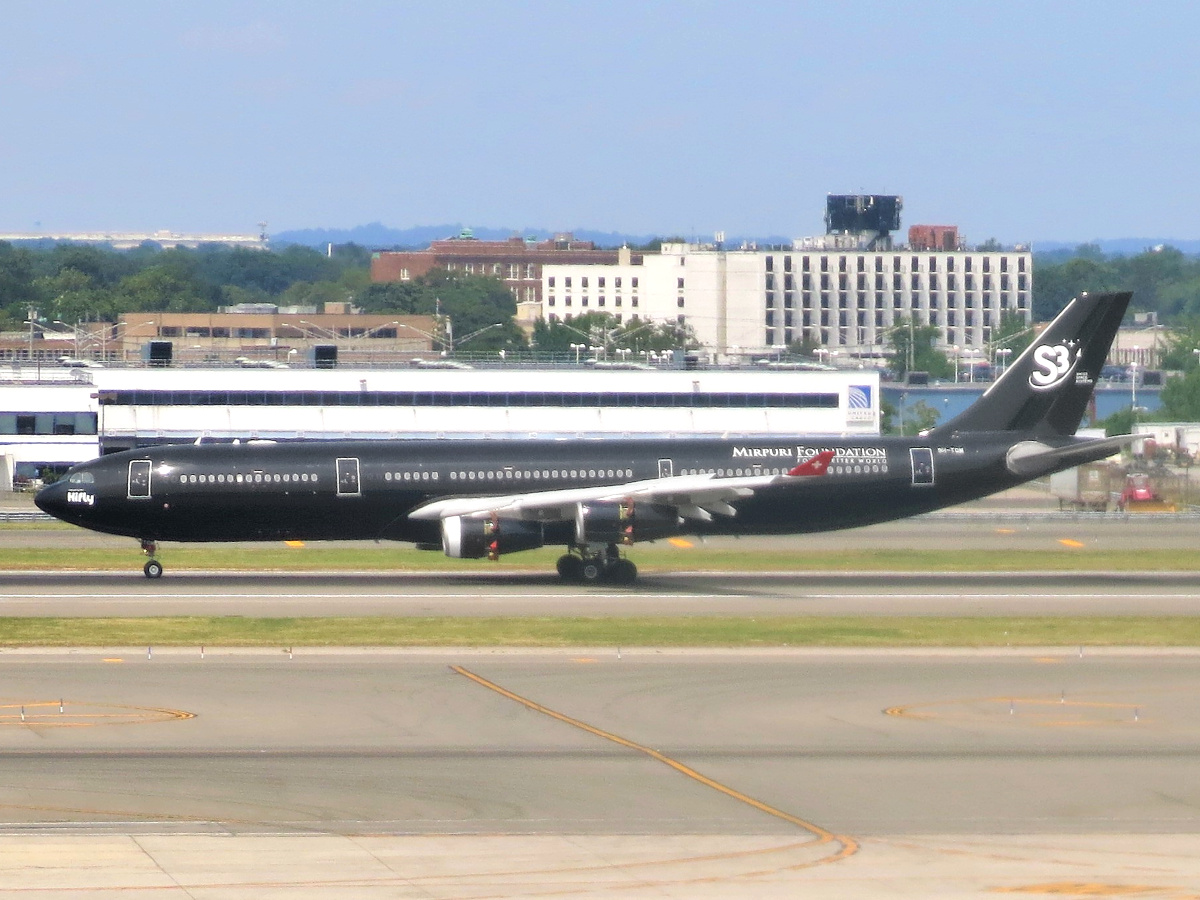 A Hi Fly Malta A340-300, operating Flight MT2852 on behalf of Thomas Cook Airlines United Kingdom, is landing at John F. Kennedy International Airport in Queens, New York, USA. This aircraft is painted in the livery of what was anticipated to be at the time a future customer in Swiss Space Systems prior to its liquidation.